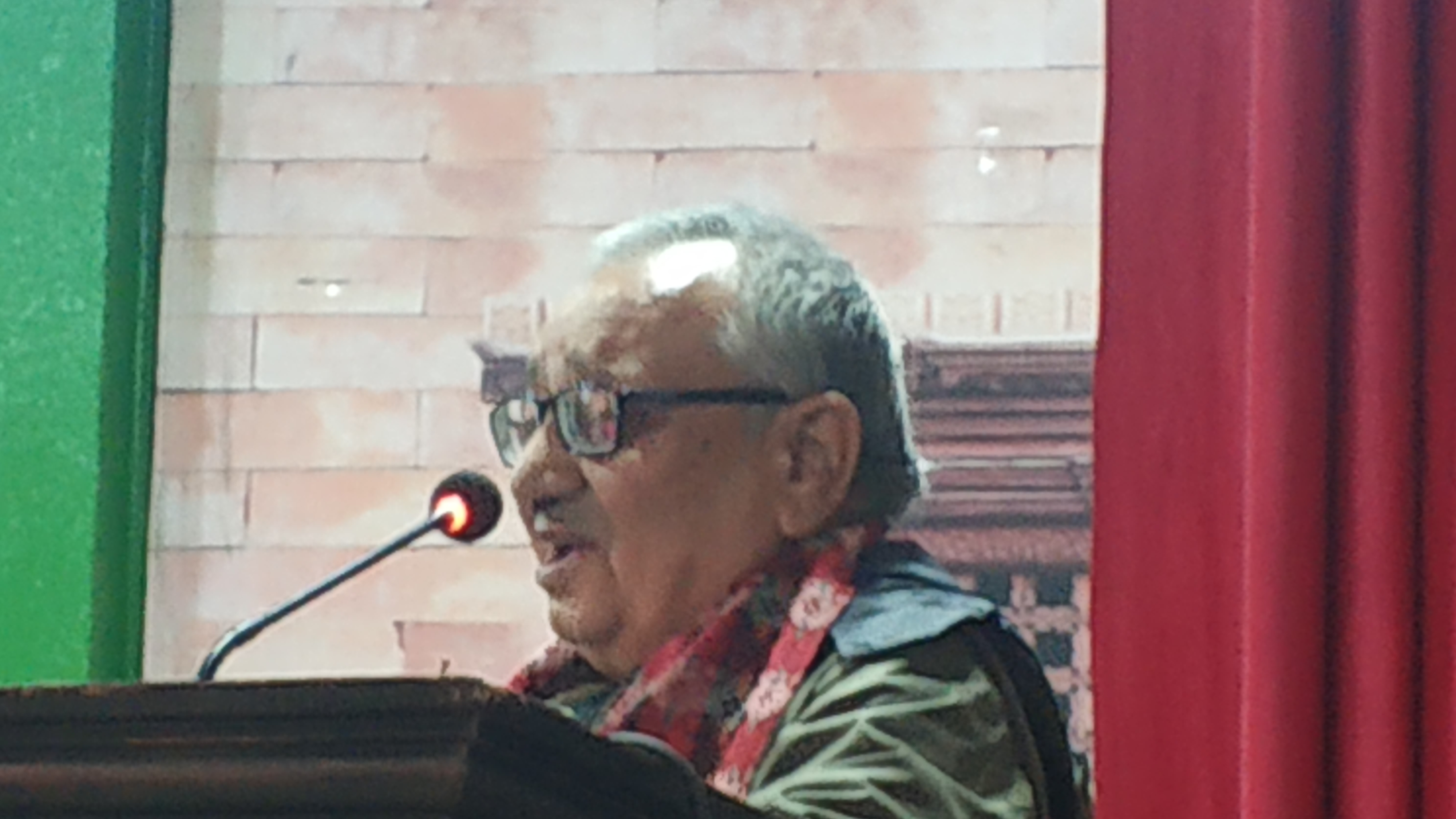 Mr. Sanat Regmi is a Nepalese writer.